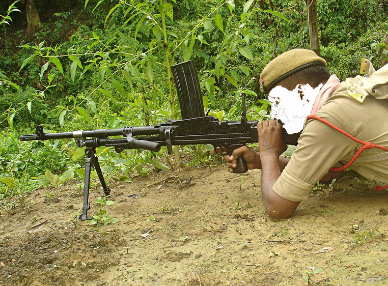 লাইট মেচিন গান